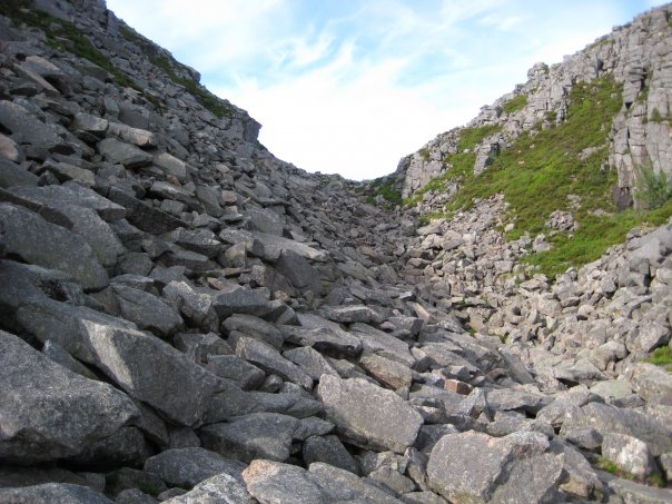 Photo of Chalamin Gap taken by me 16th July 2009 in fine weather on the way to climb Braeriach.